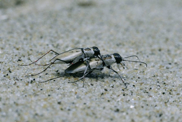 Cicindela dorsalis ssp. dorsalis